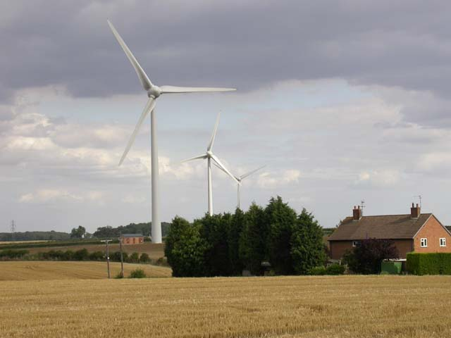 Houses and an Elegant Array of Wind Turbines The houses to the right of the image are on a dead-end road out of Burton Latimer which changes into a farm road with no public access. I have heard fears expressed that turbines can be noisy. In a light wind the ones I managed to get close to were noisless. They are also further away from the houses than might be thought from this picture.